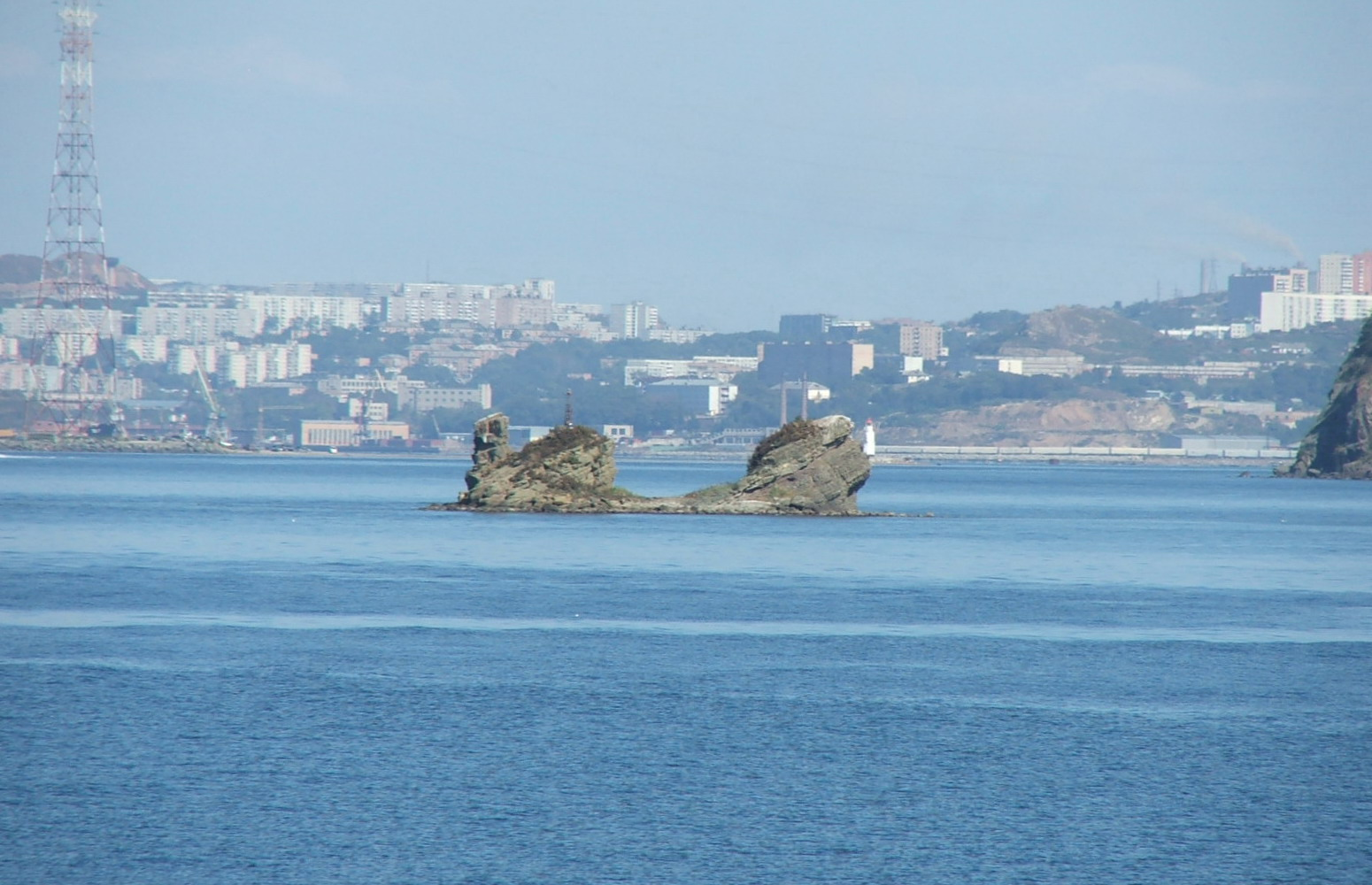 Ushi island